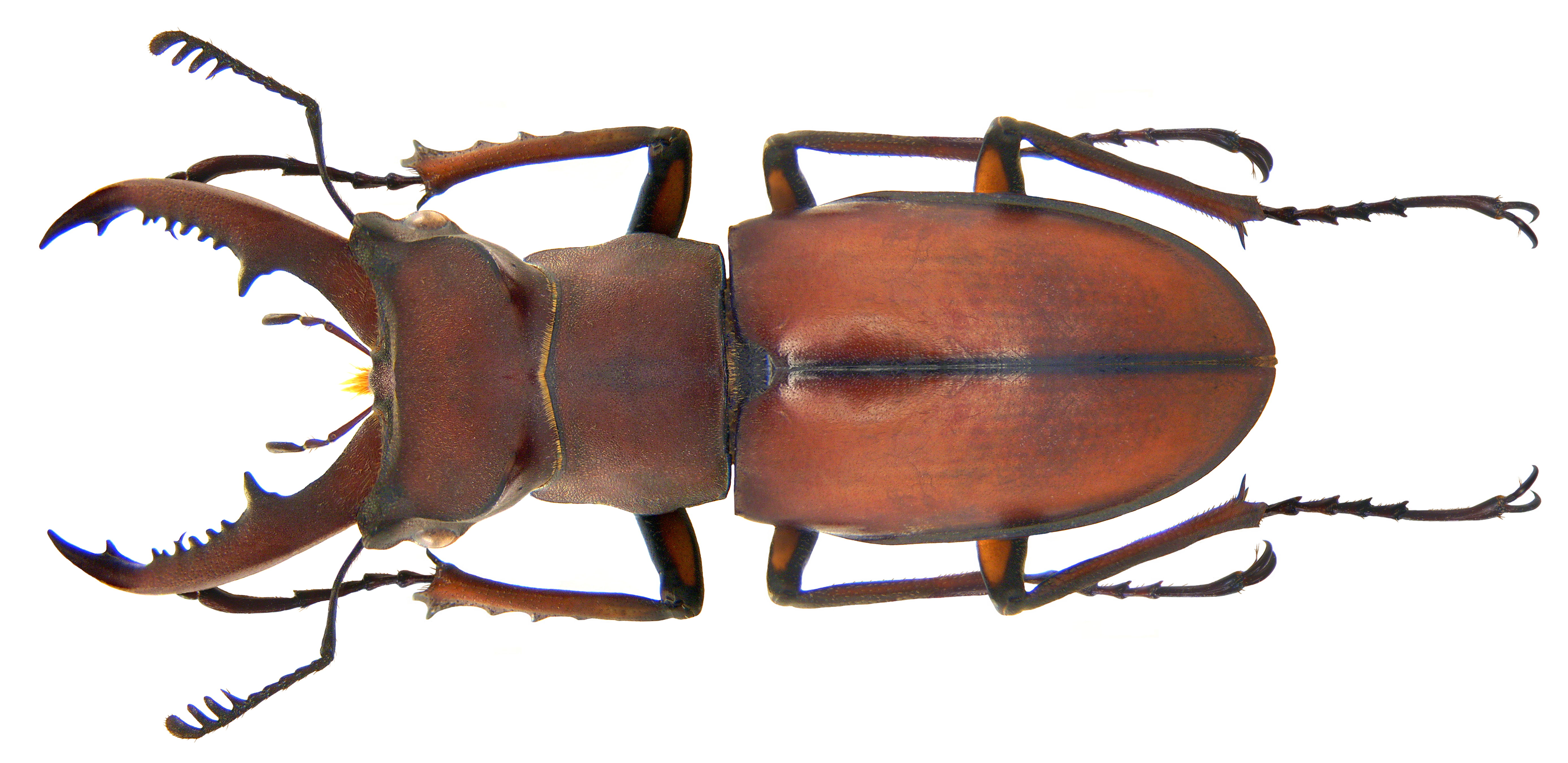 Family: Lucanidae Size: 37 mm Origin: Taiwan Location: Taiwan, Sun Kang, Nam-To, 2006 det. A.Skale, 2006 Photo: U.Schmidt, 2009